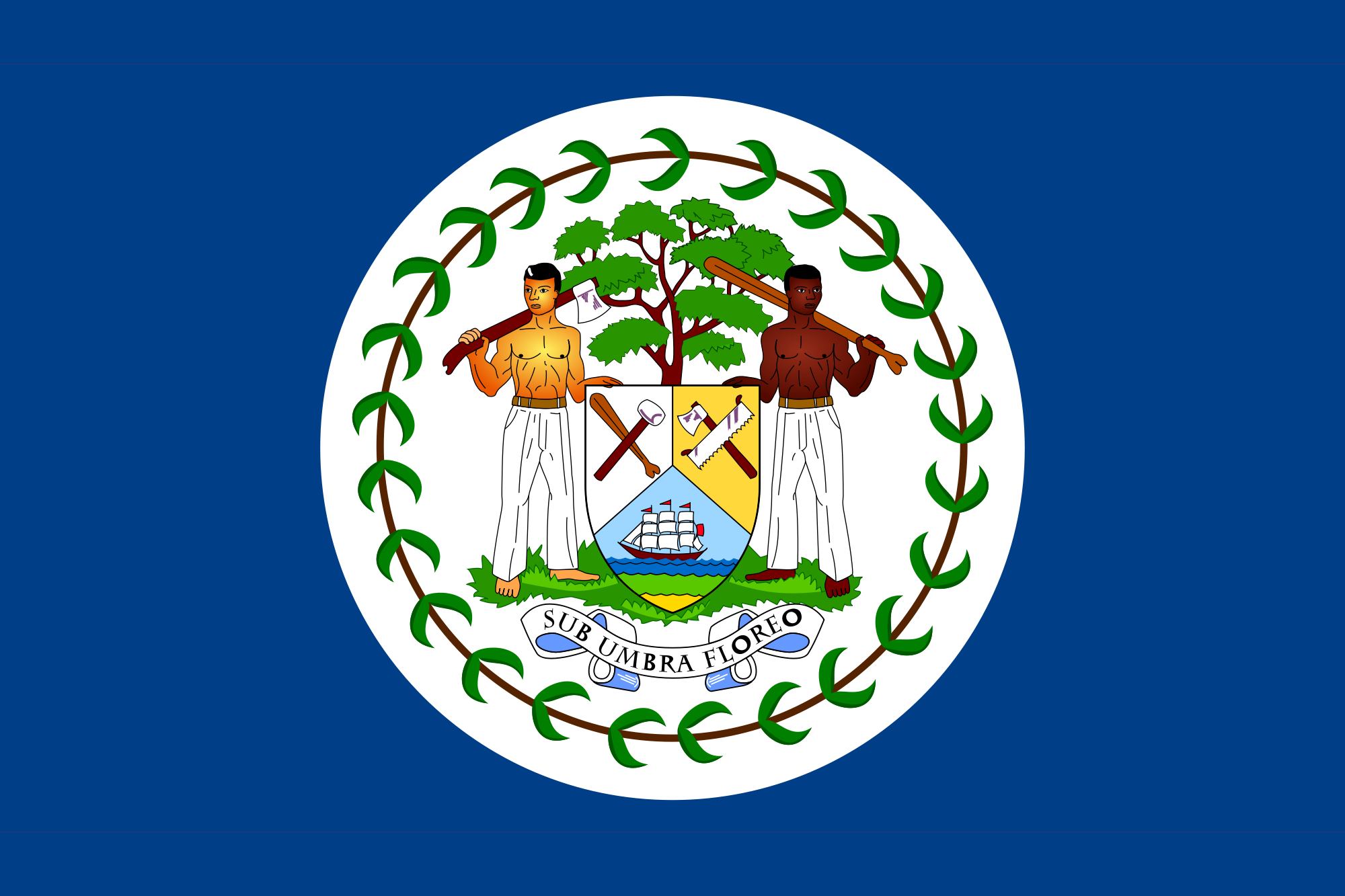 Flag of Belize, 1950-1981